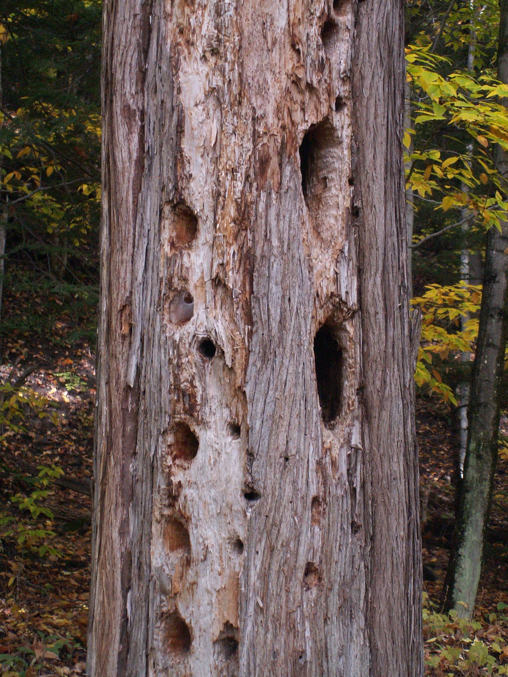 Pileated Woodepecker holes in a Northern Whitecedar (Thuja occidentalis), Cap Tourmente National Wildlife Area, Quebec, Canada.